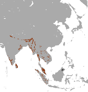 Asian Elephant (Elephas maximus) range (brown — native, dark gray — origin uncertain